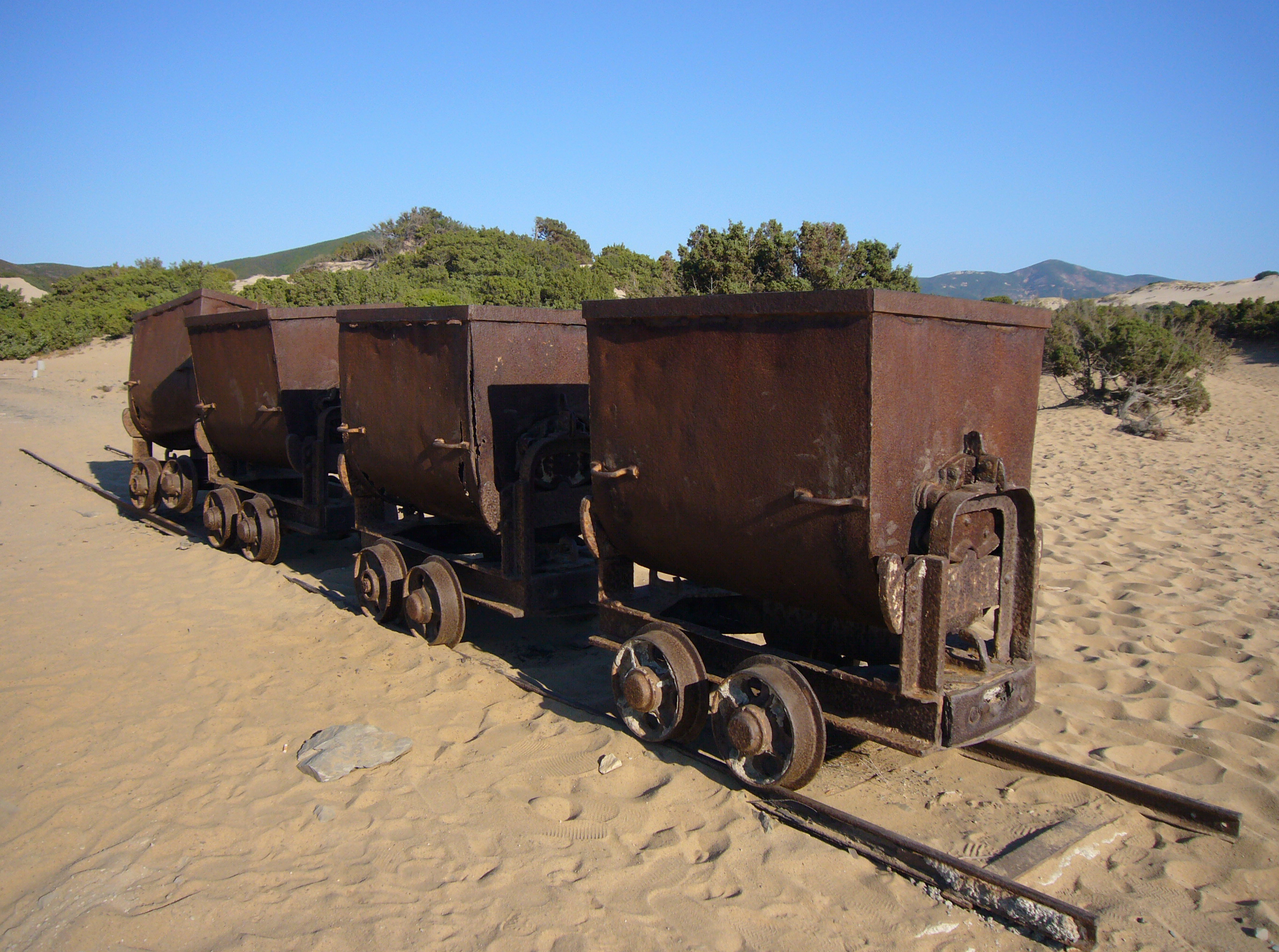 Mining trolley on Piscinas beach near Ingurtosu, Costa Verde, west Sardinia, Italy.